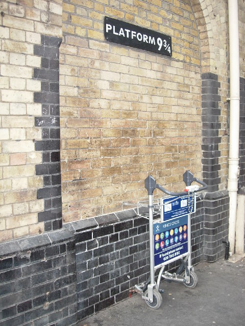 Platform nine and three quarters! Known to all readers of the Harry Potter stories by J K Rowling, platform nine and three quarters in Kings Cross Station is where Harry's journey to Hogwarts School begins.